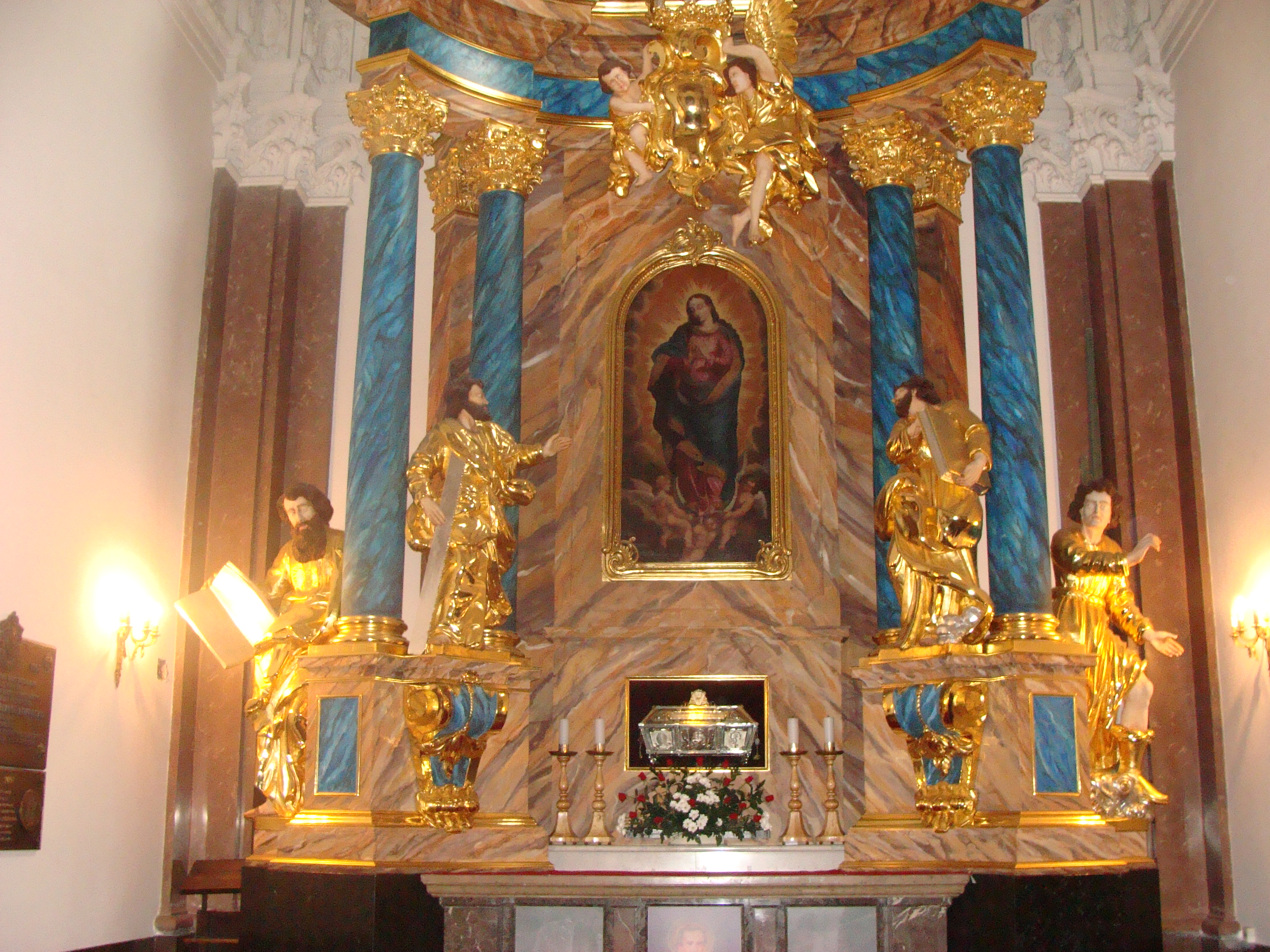 Warsaw' s Cathedral, The Chapel of the Immaculate Conception